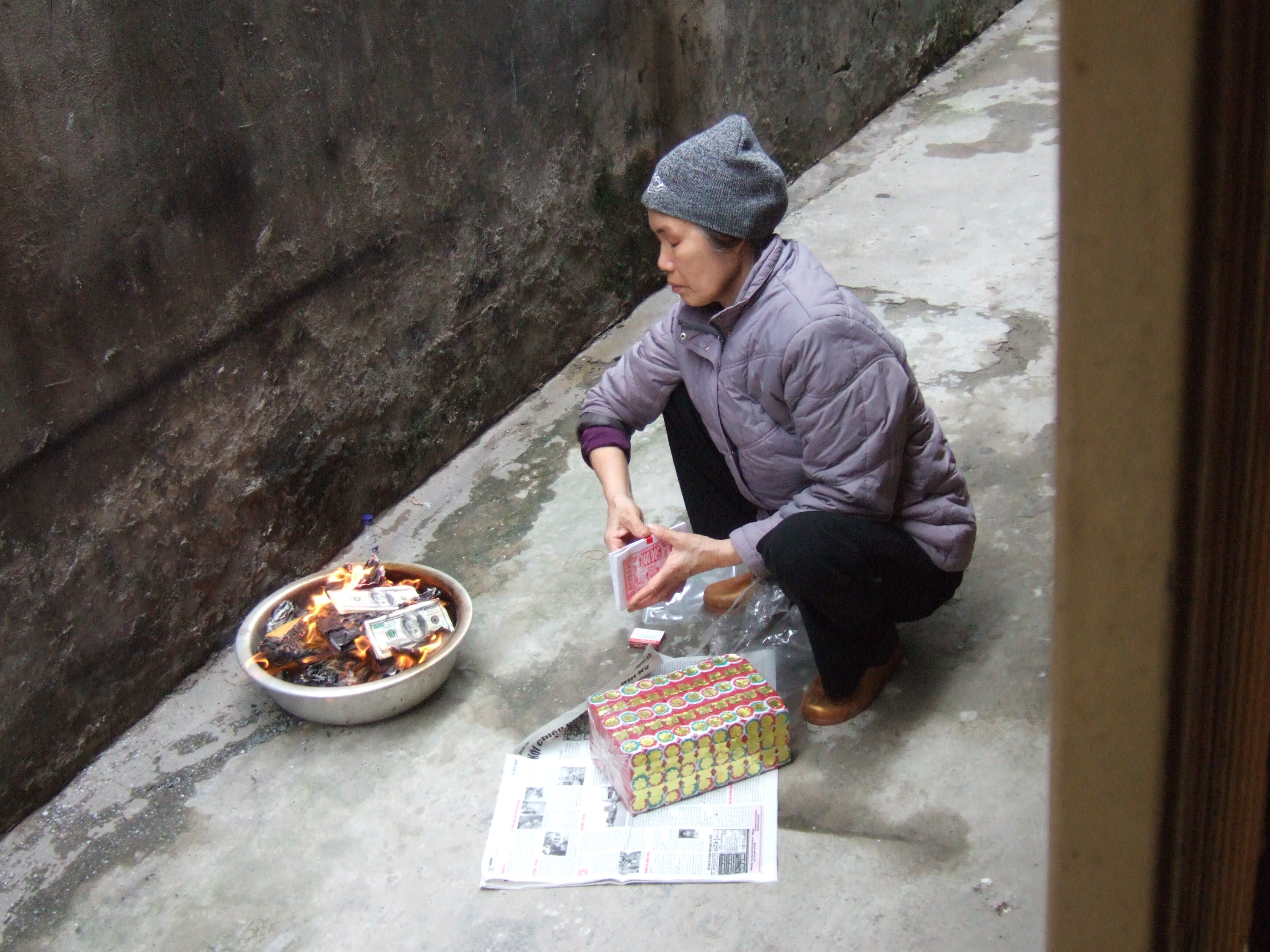 Vietnamese woman burning imitation banknotes in Hanoi